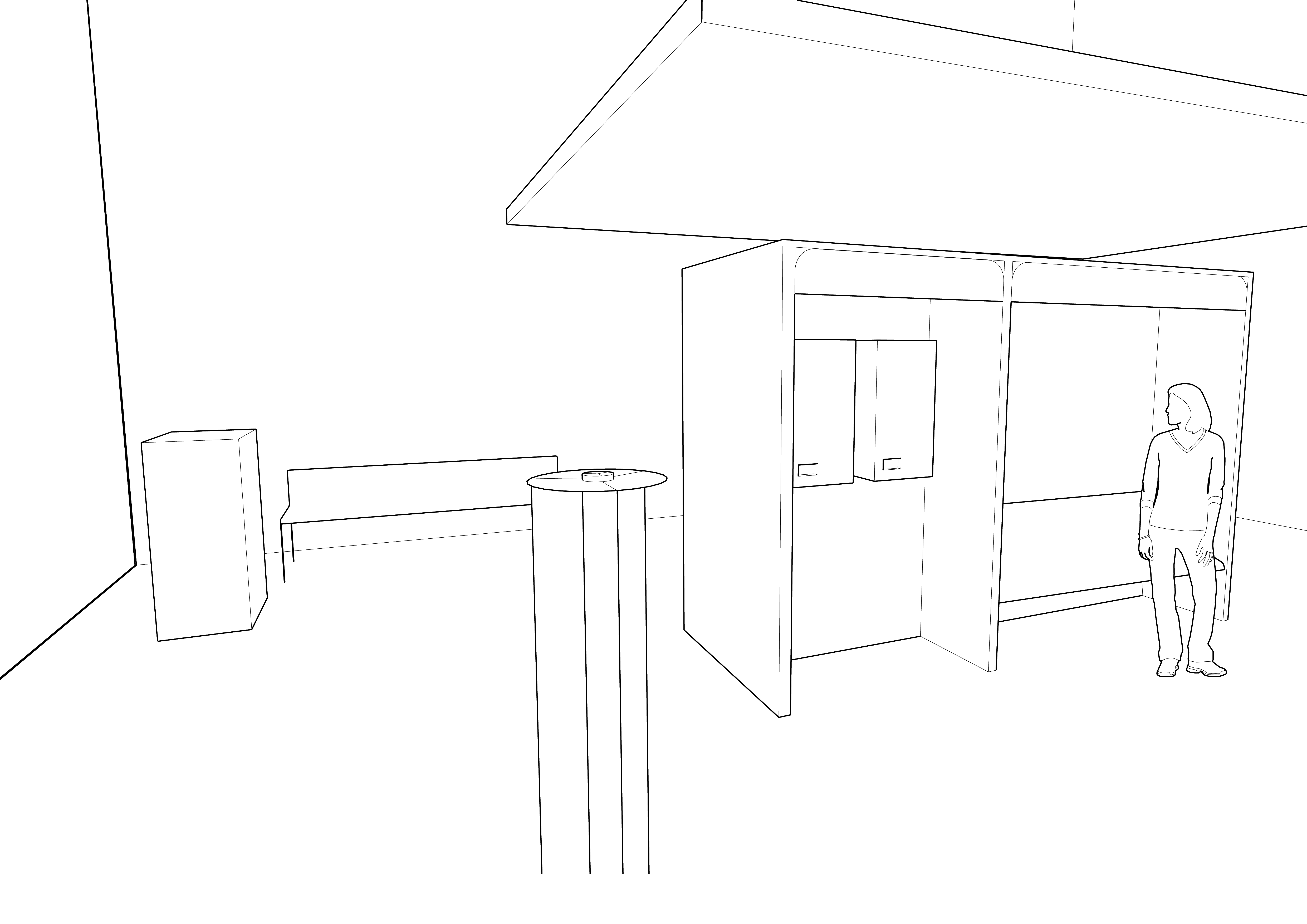 Sezione Germania XIV